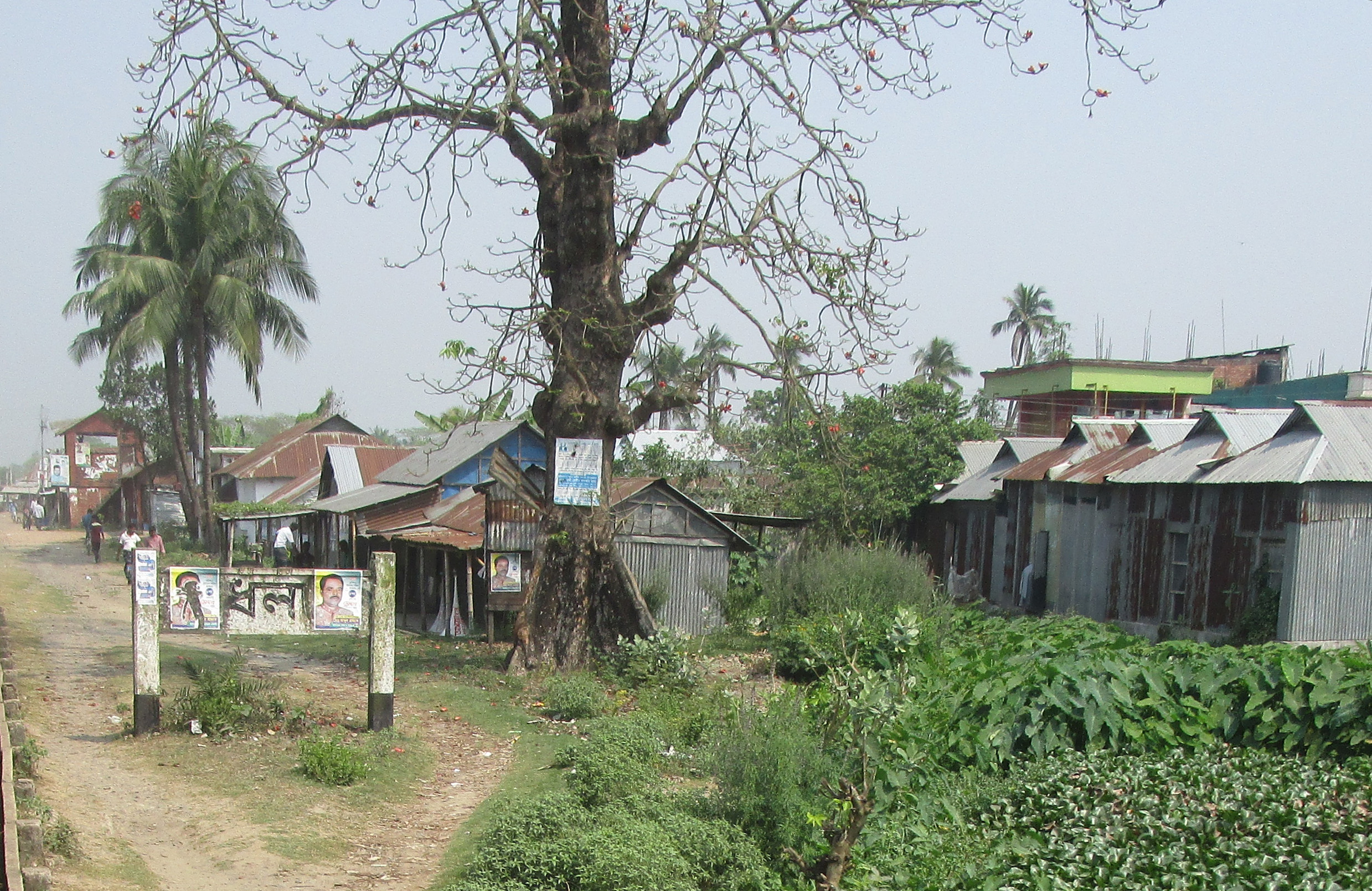 Dhala railway station